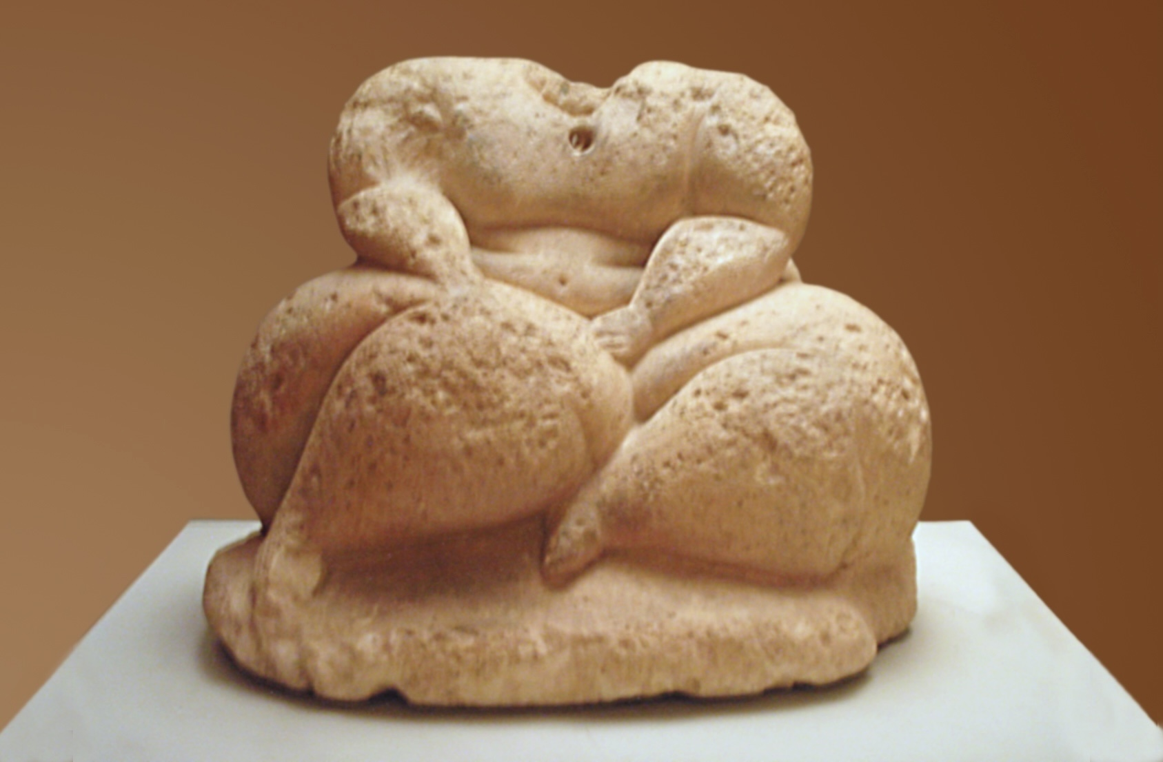 Fat Lady of Malta, National Museum of Archaeology of Malta.